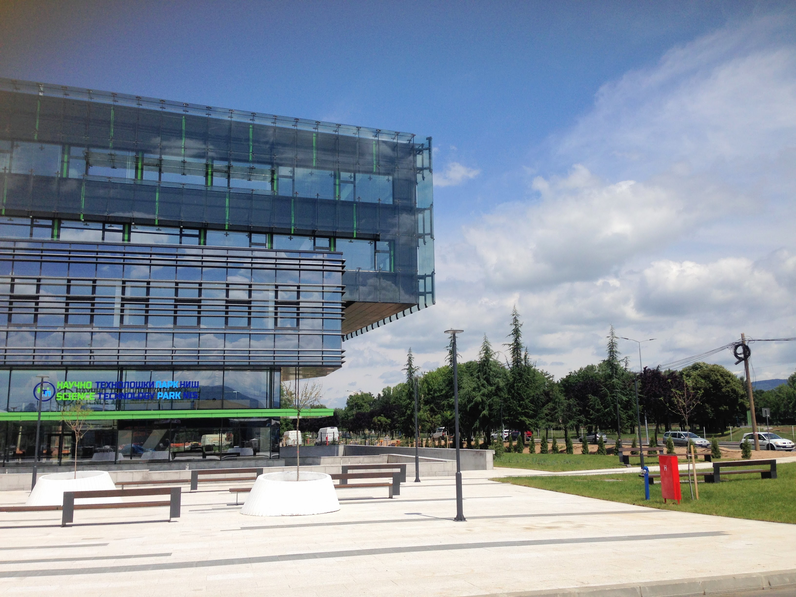 Science technology parc Nis